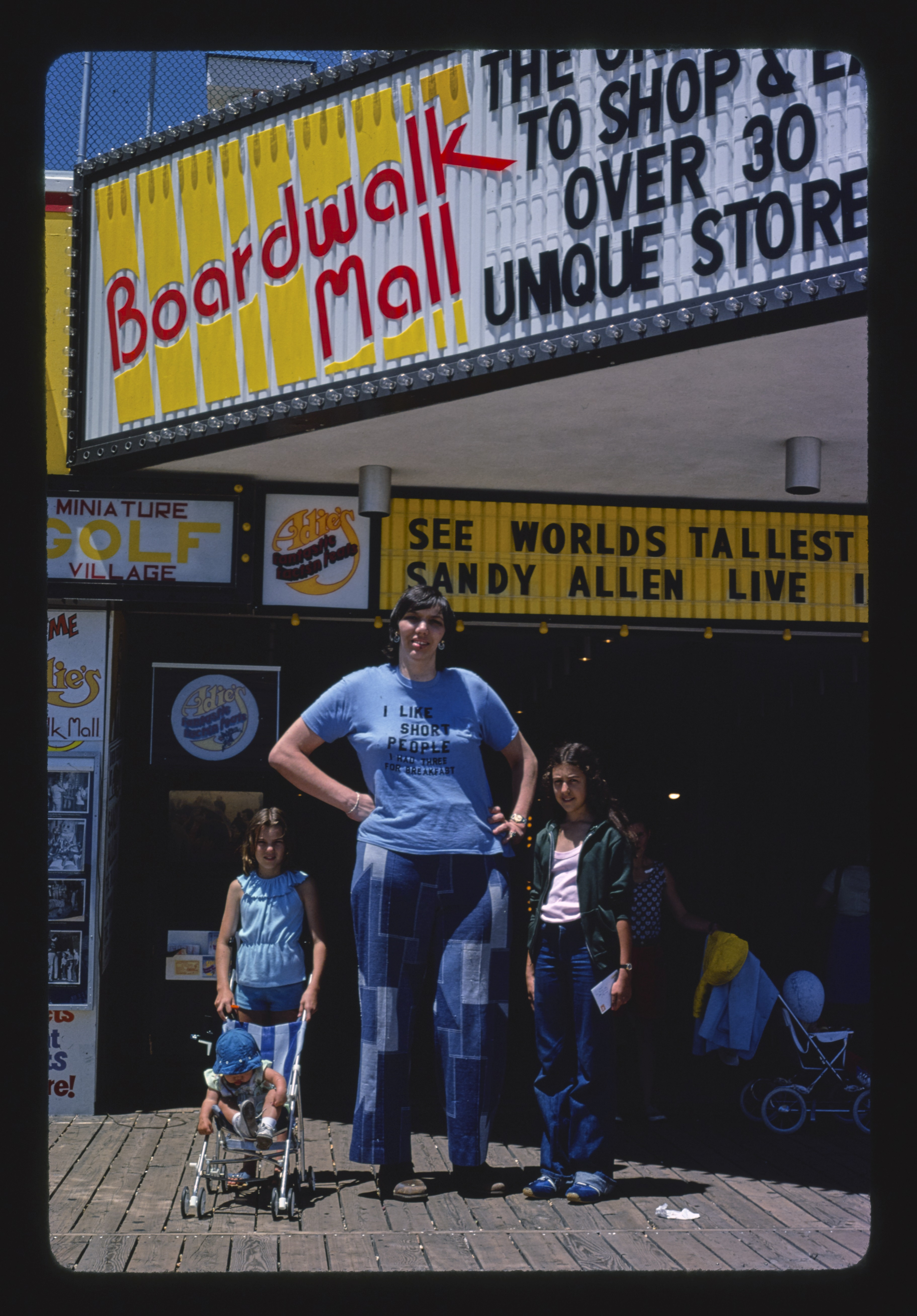 Sandy Allen, world's tallest woman, seen on boardwalk, Wildwood, New Jersey in 1978